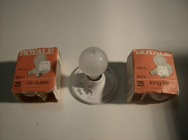 Some new old stock Royale light bulbs made by Philips in the late 60s.